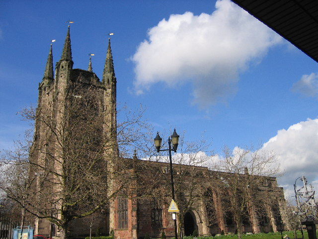 St Editha's parish church, Church Street, Tamworth, Staffordshire, seen from the south